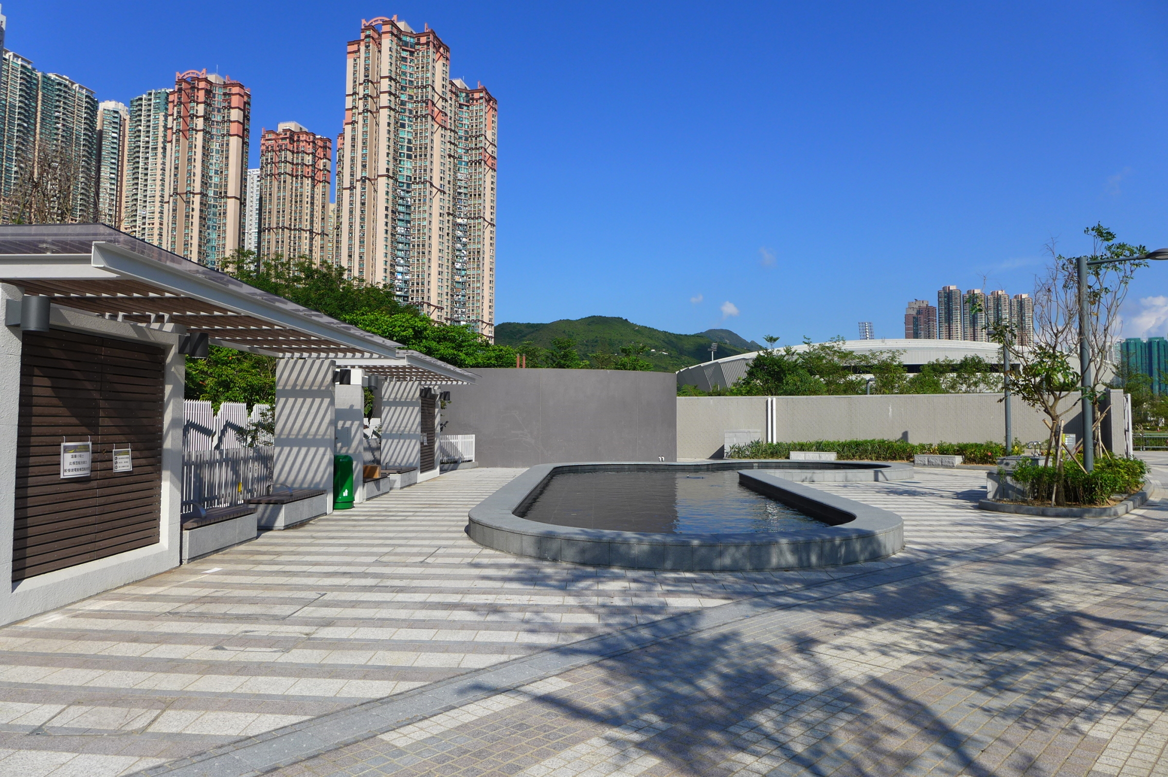 Tseung Kwan O Town Park Model Boat Pool